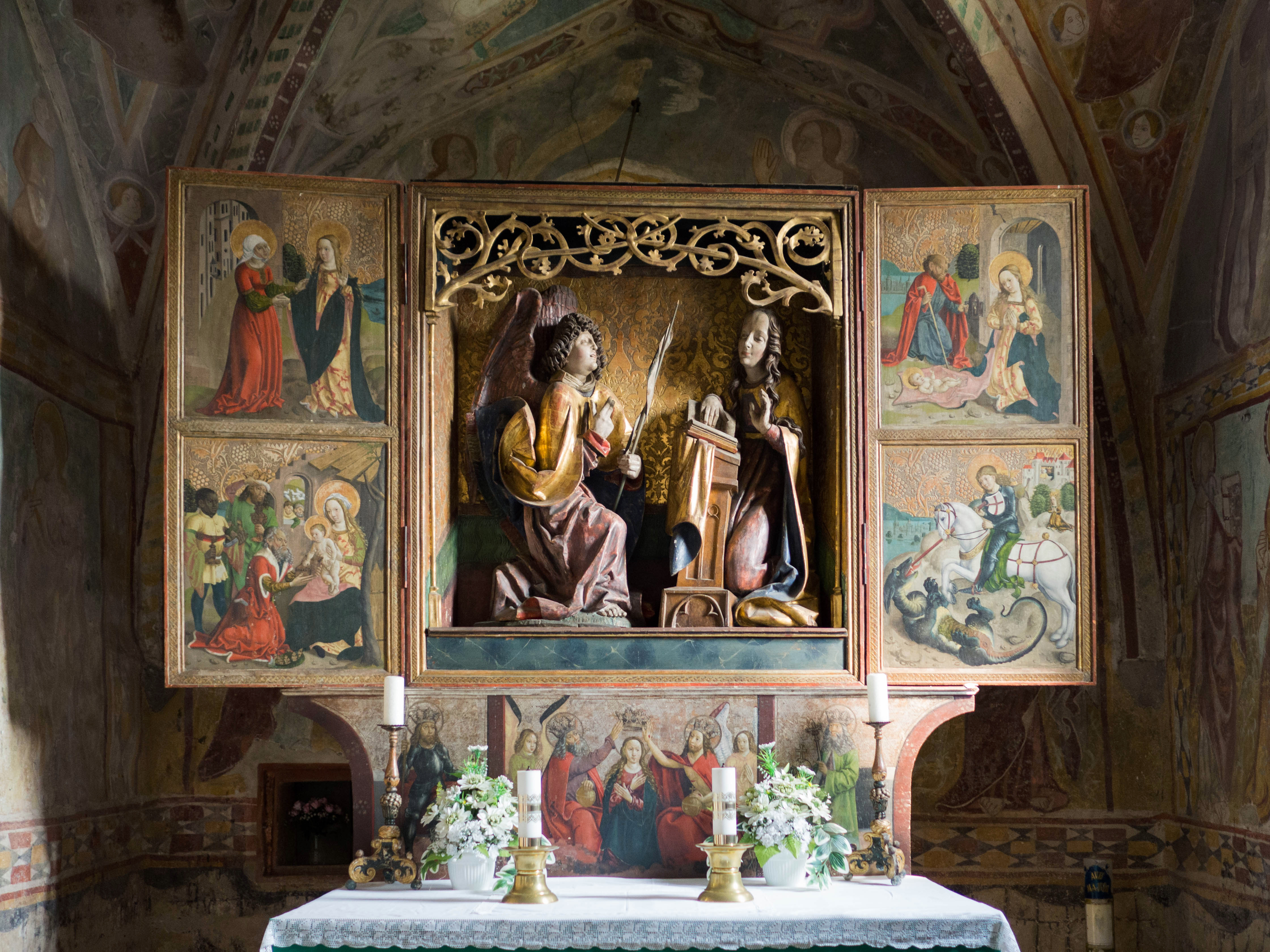 Gothic altar by Master Paul of Levoča in the Church of Annunciation in Chyžné, Slovakia.